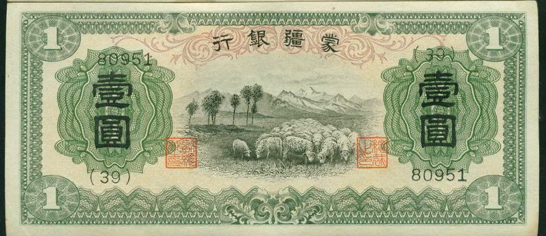 Banknote of Mengjiang, China, 1 Yuan.